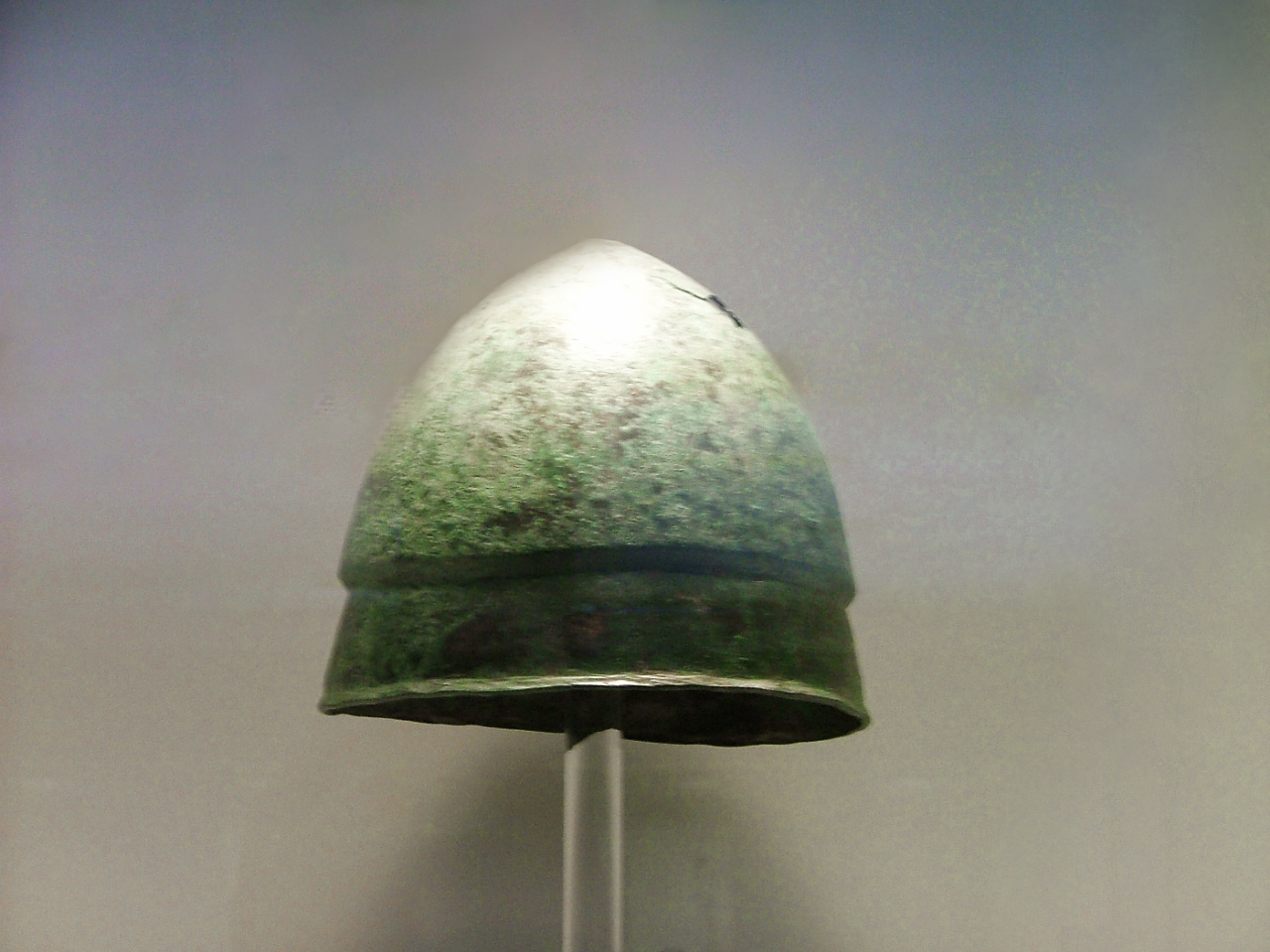 Greek helmet of Pilos type (450 - 425 BC).